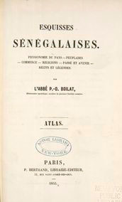 Title page of Esquisses sénégalaises